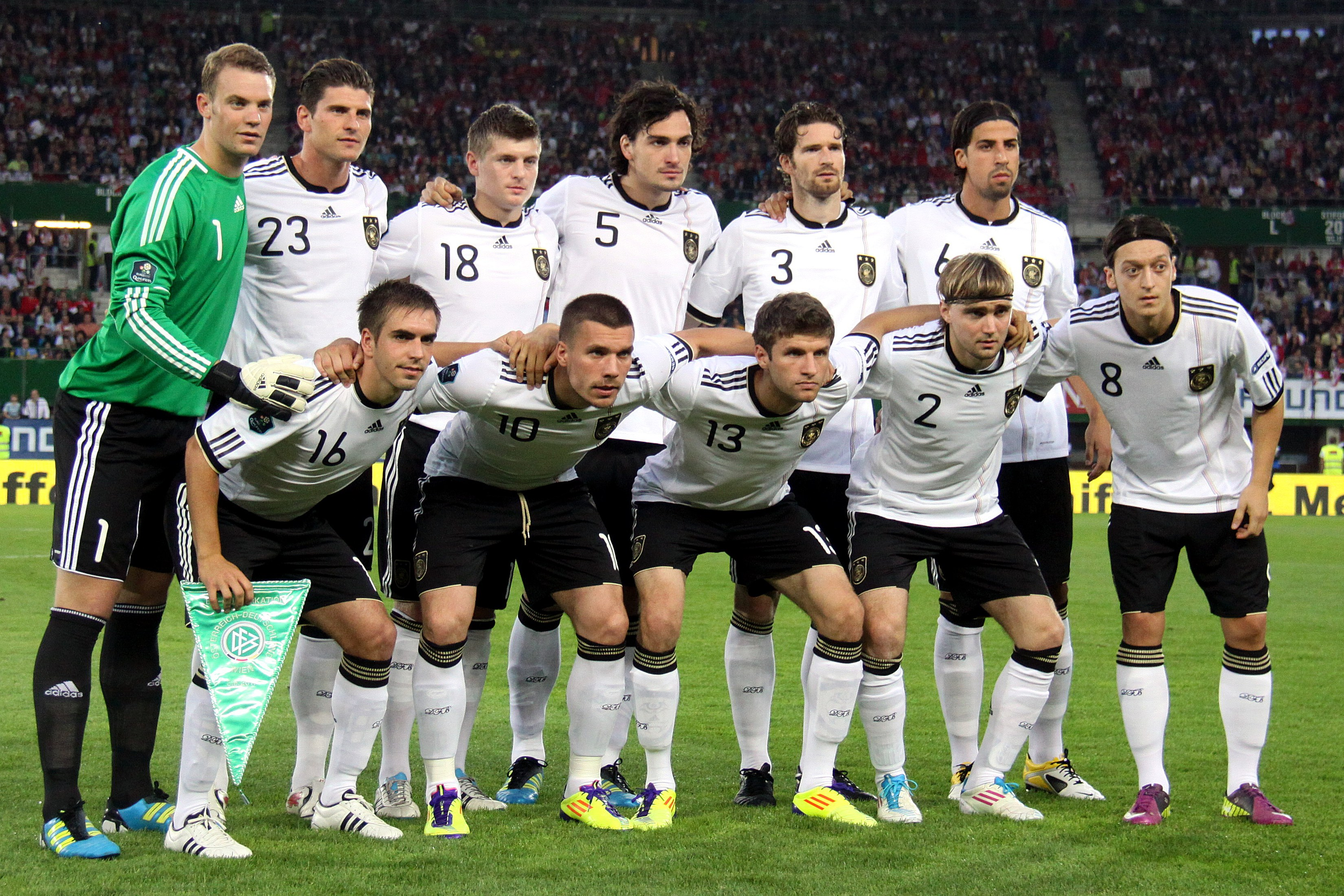 German national football team against Austria (2:1)